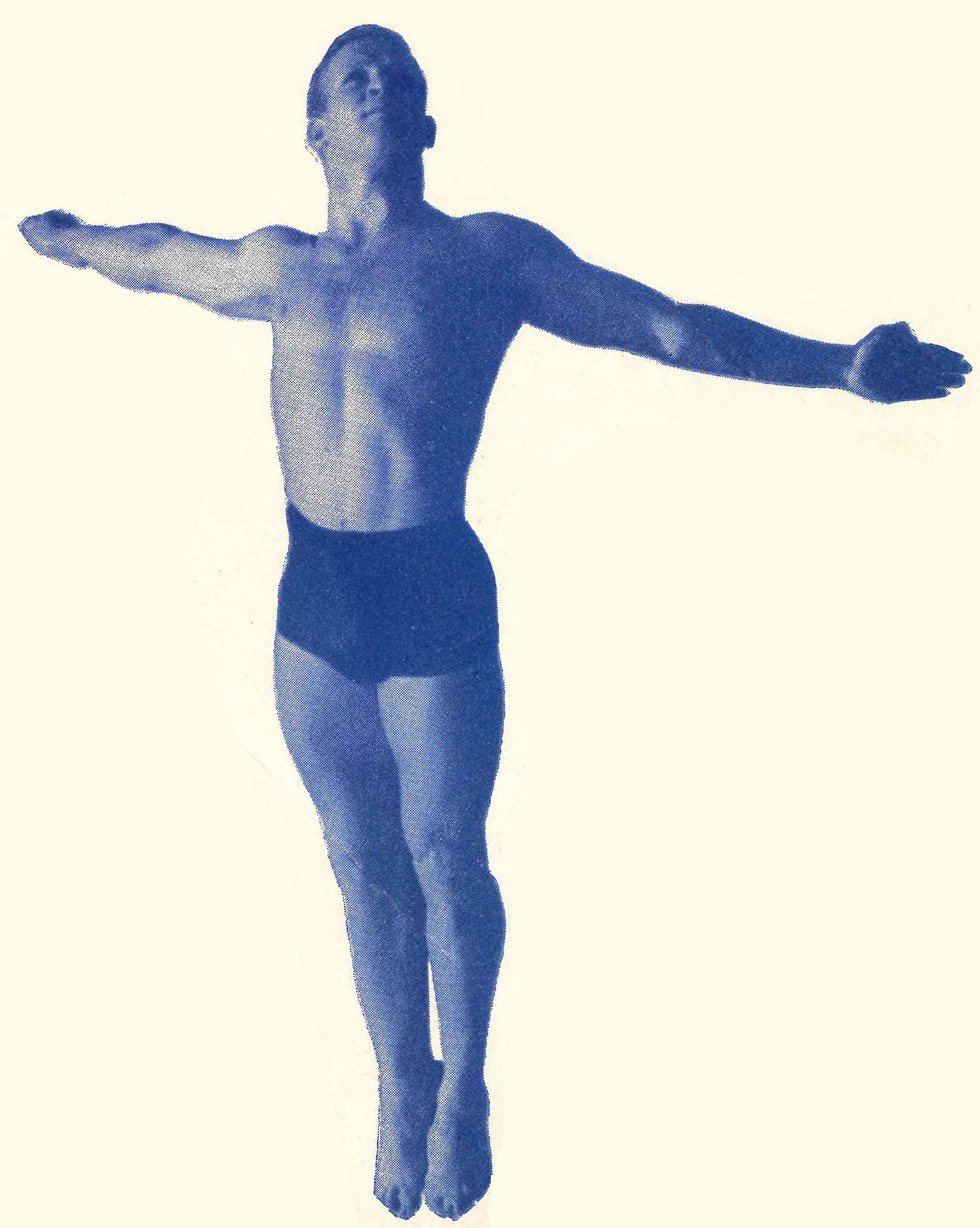 Bruce Harlan on cover "The Aqua Follies of 1952" program cover. From a performance July 31 - August 13, 1950 at Green Lake Aqua Theater, Seattle, Washington, U.S.